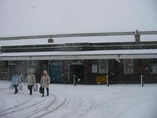 Photograph of Filey Station, taken in 2005 by myself.